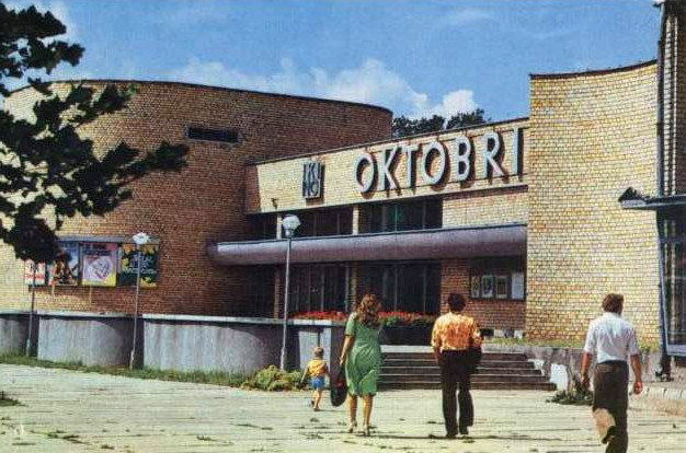 Cinema "Oktobris", Daugavpils, Latvia.